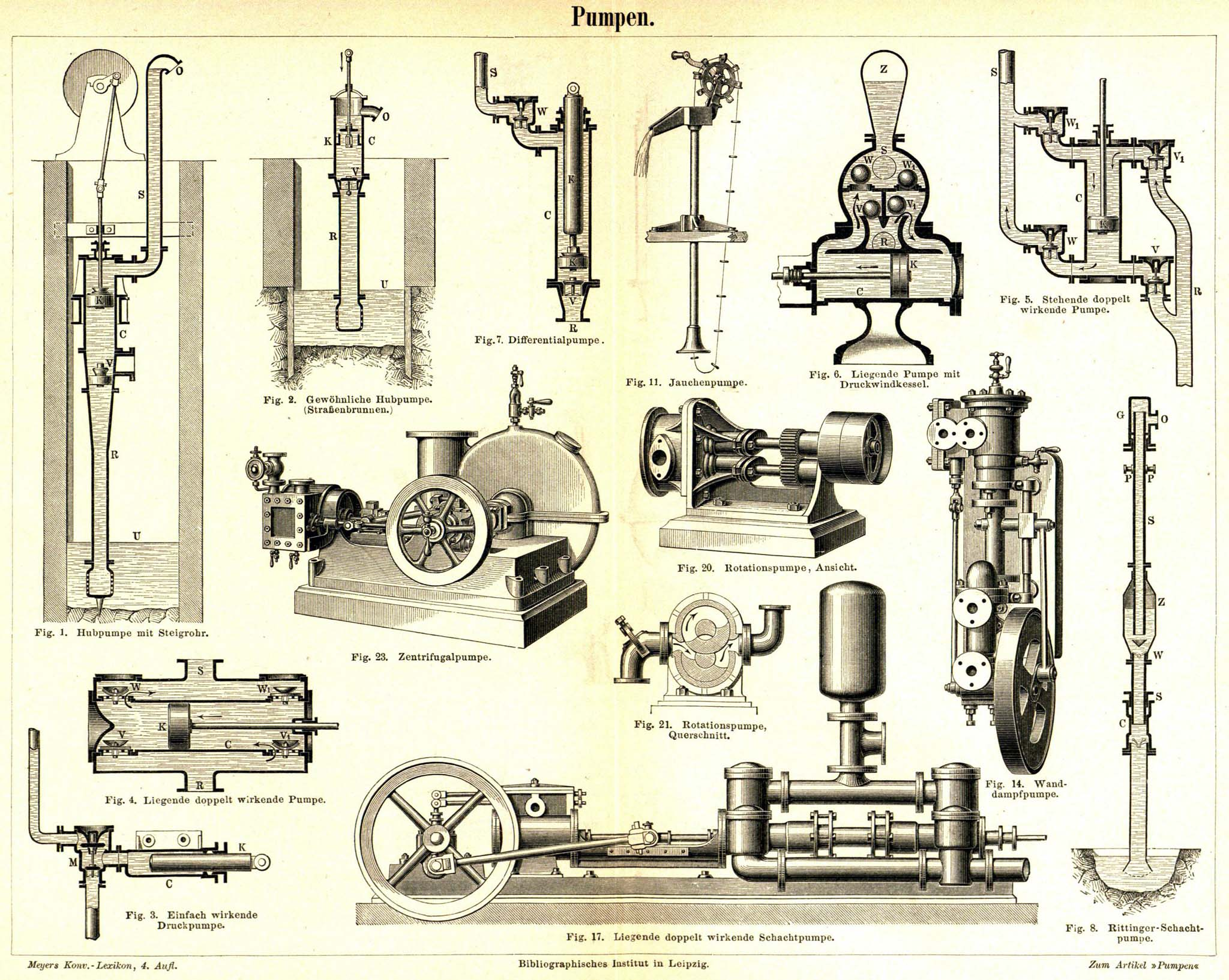 pumps I.